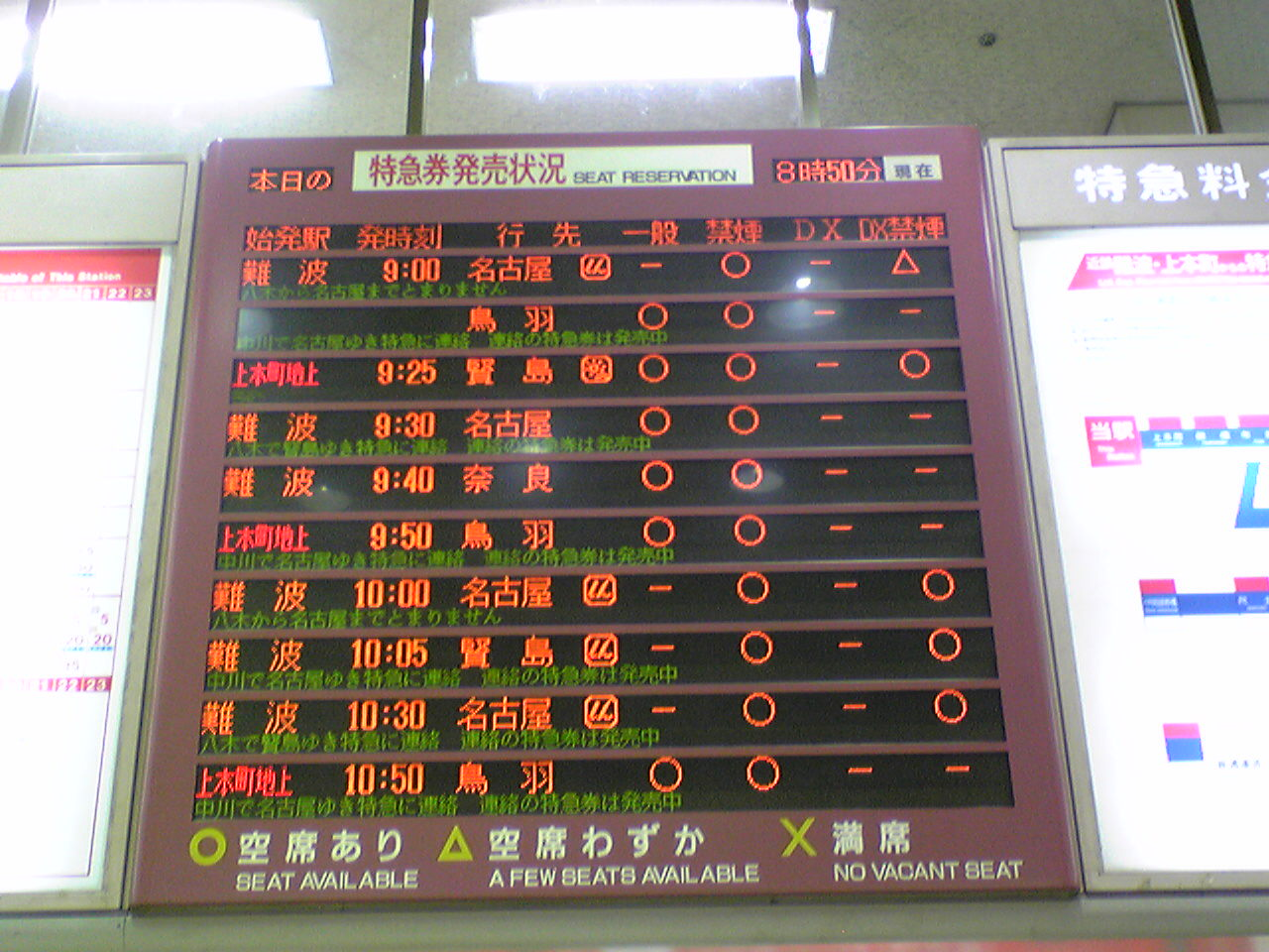 Information board at Kintetsu-Namba Station (now Osaka-Namba Station) showing availability of limited express tickets